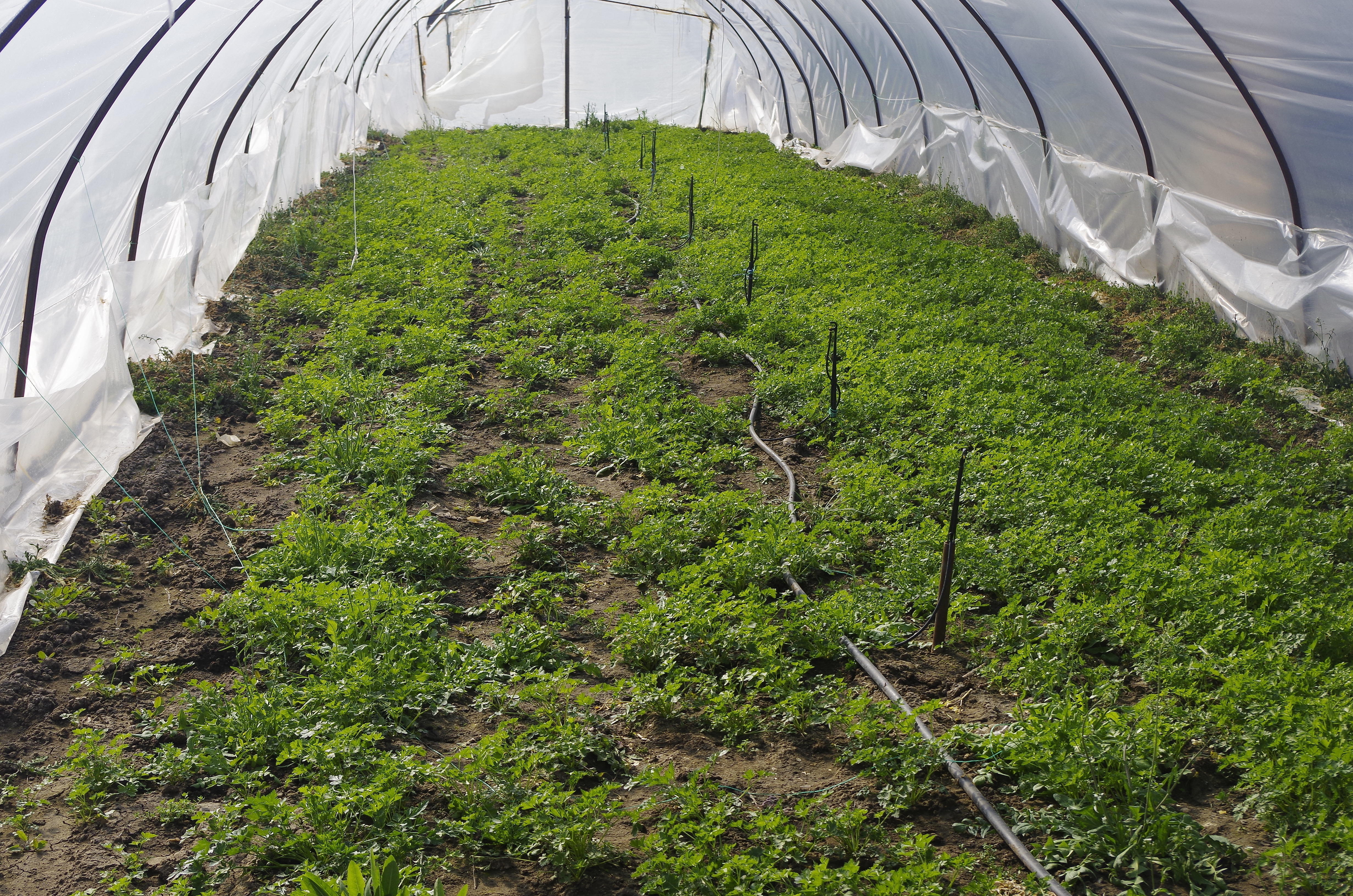 Greenhouse with Spinach